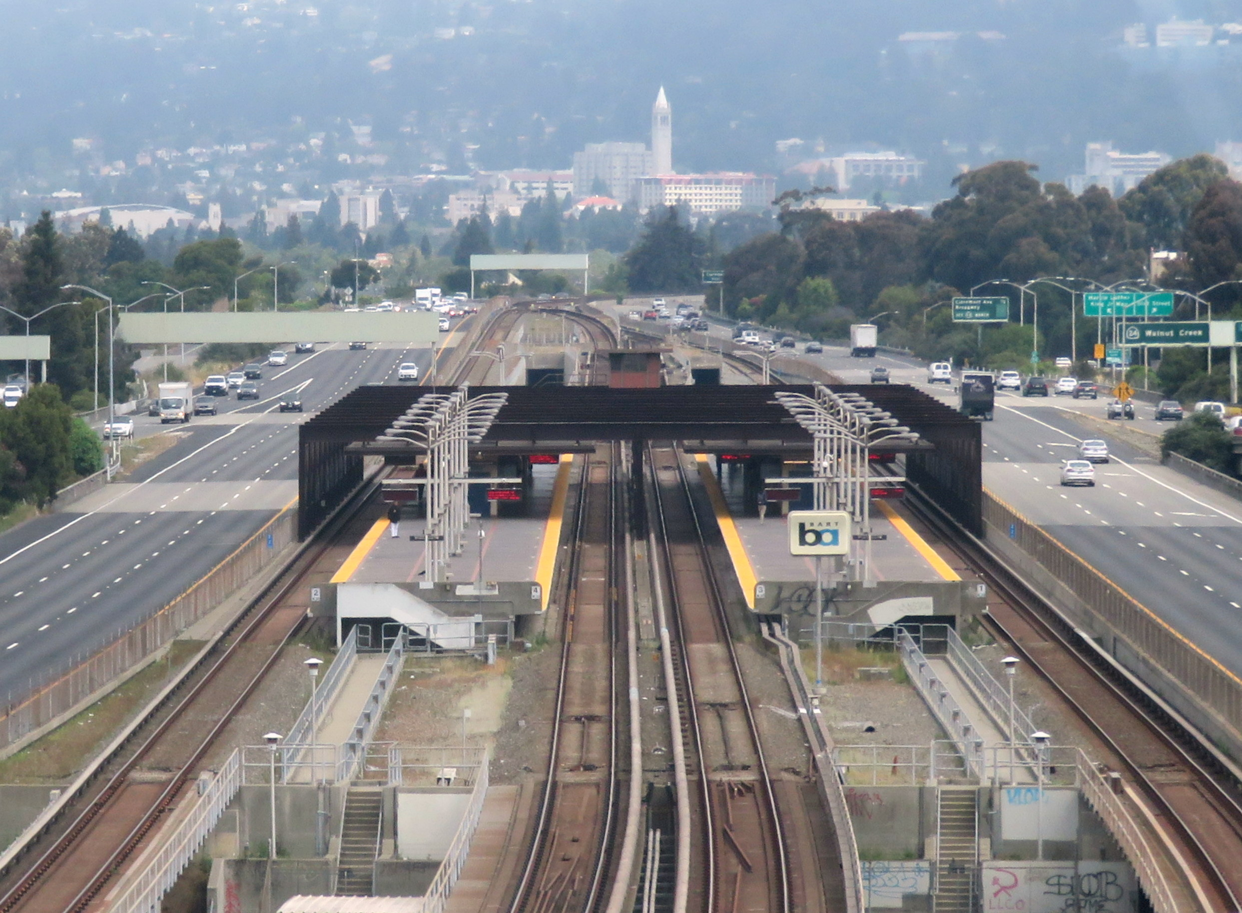 MacArthur station viewed from the I-580 eastbound to SR24 eastbound ramp in May 2019